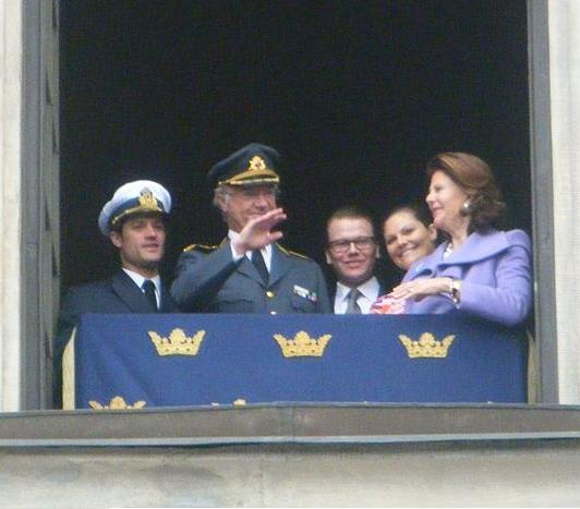 Swedish Royal Family, Prince Carl Philip, King Carl XVI Gustaf, Daniel Westling, Crown Princess Victoria, Queen Silvia